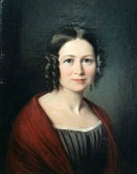 Painting of the Danish composer Emma Hartmann (1807-1851)